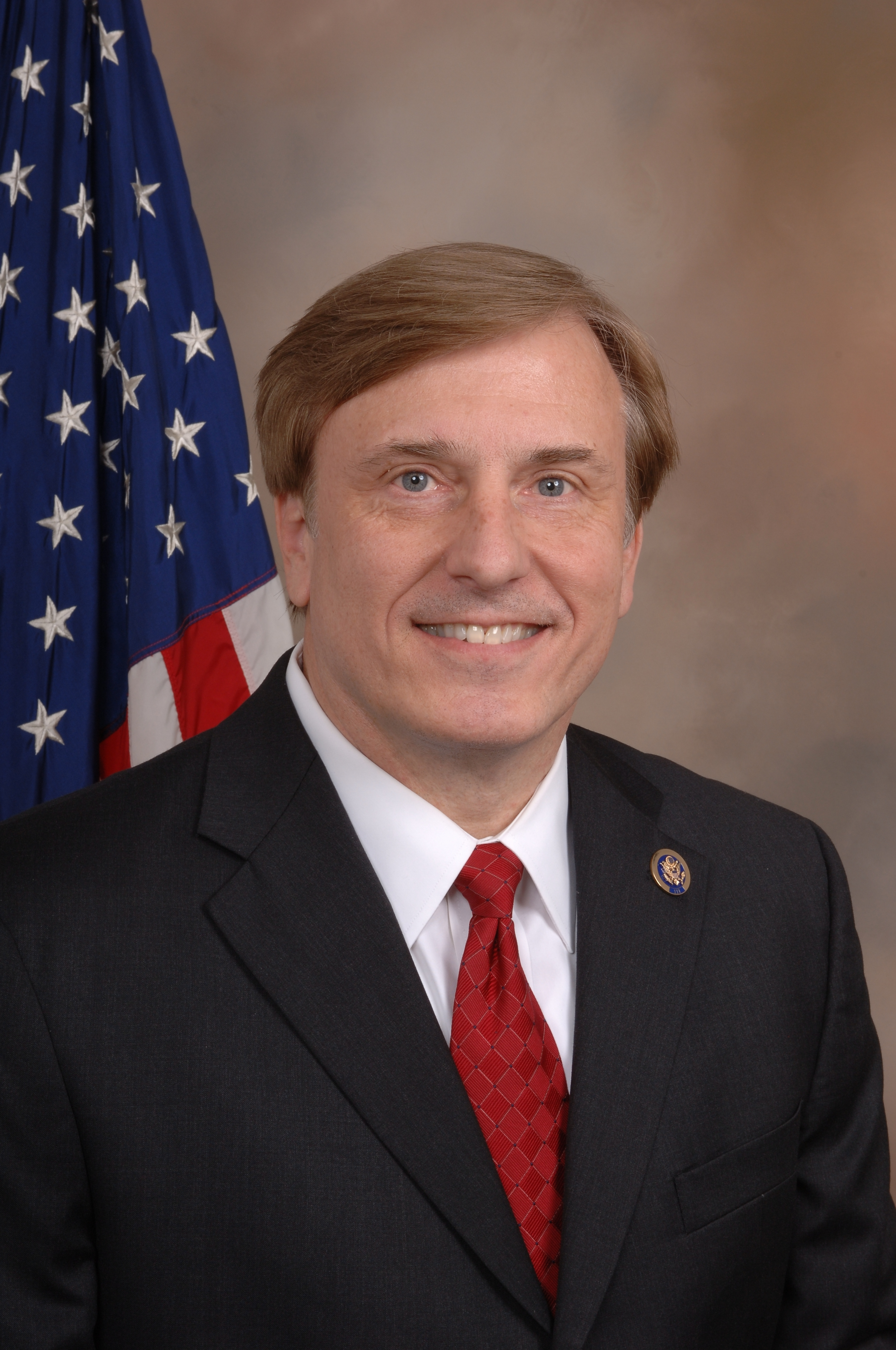 John C. Fleming, member of the United States House of Representatives.